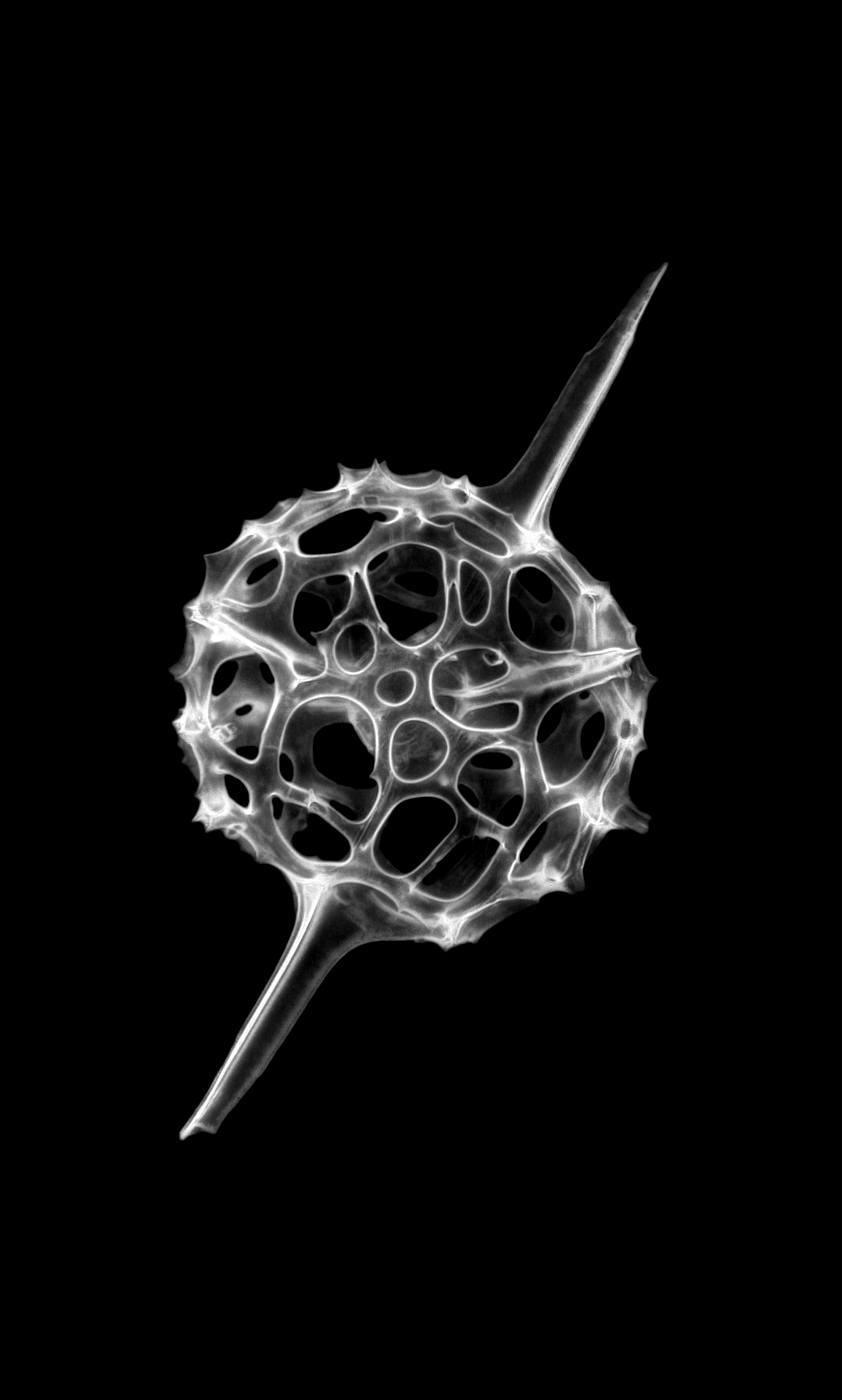 250x magnified, stacked image, bright field (negative image) Fundort / Site: Barbados (sediment sample) Alter / Age: fossile (Middle Eocene to Oligocene) Präparation / Preparation: Andreas Drews, 2016